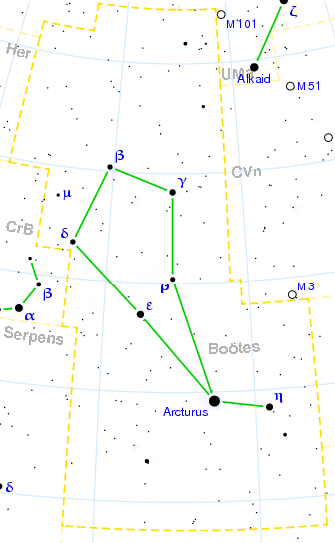 This is a celestial map of the constellation Bootes the Herdsman. Copyright © 2003 Torsten Bronger. It was created by Torsten Bronger using the program PP3 on 2003/07/23. At PP3's homepage, you also get the input scripts necessary for re-compiling the map. The yellow dashed lines are constellation boundaries, the red dashed line is the ecliptic, and the shades of blue show Milky Way areas of different brightness. The map contains all Messier objects, except for colliding ones. The underlying database contains all stars brighter than 6.5. All coordinates refer to equinox 2000.0. The map is calculated with the azimuthal equidistant projection (the azimuth being in the center of the image). The north pole is to the top. The (horizontal) lines of equal declination are drawn for 0°, ±10°, ±20° etc. The lines of equal rectascension are drawn for all 24 hours. The scale of the map is (approx.) 11.8 pixel per degree at the centre of the bitmap. Towards the rim there is a very slight magnification (and distortion).